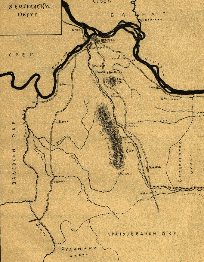 Districts of Serbia 1900